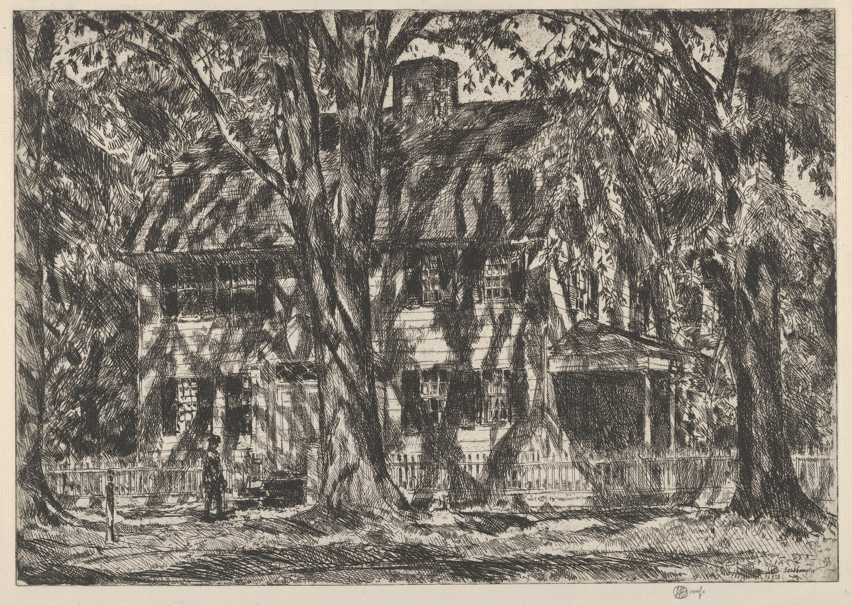 Print; Prints